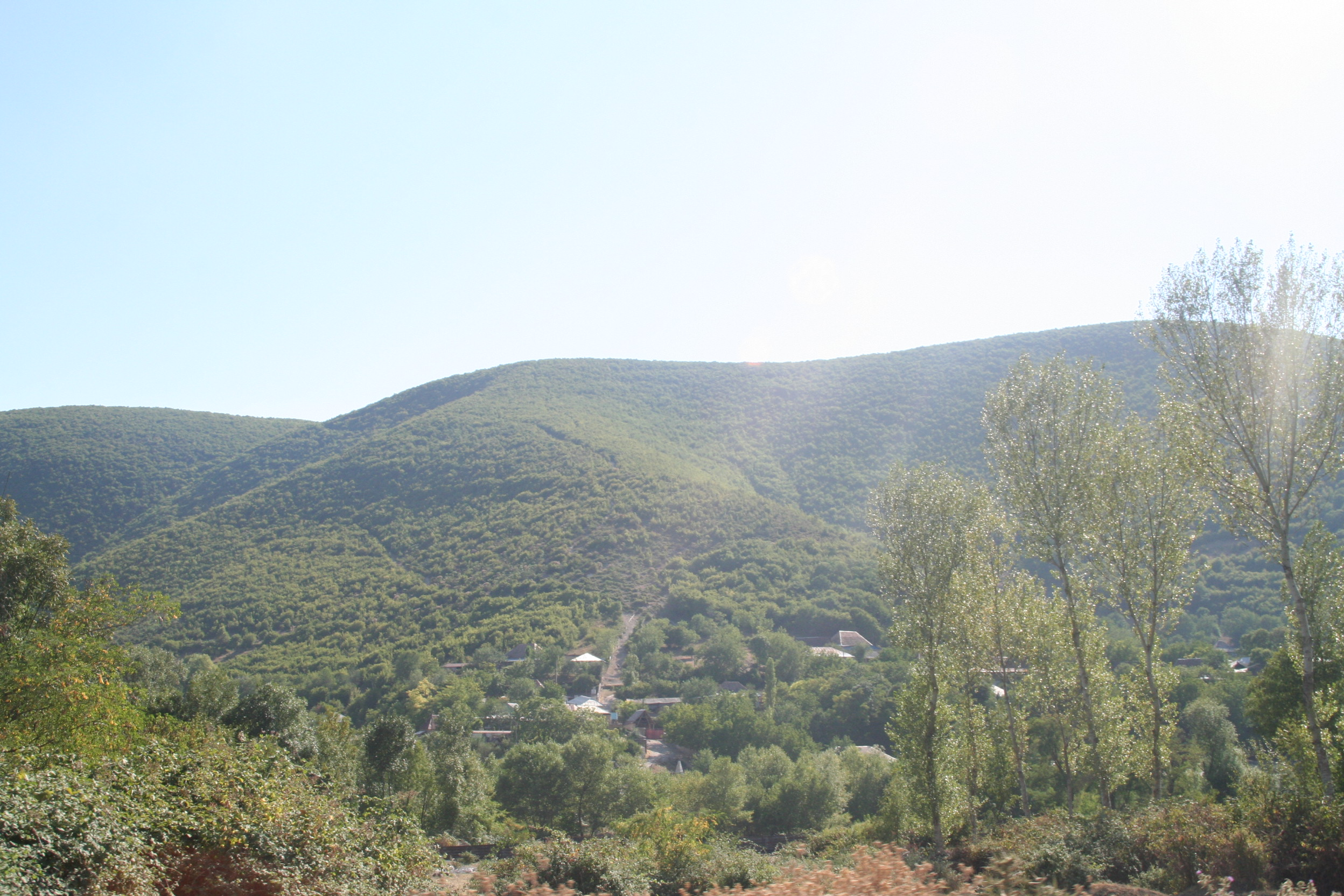 Nature of Okhud village